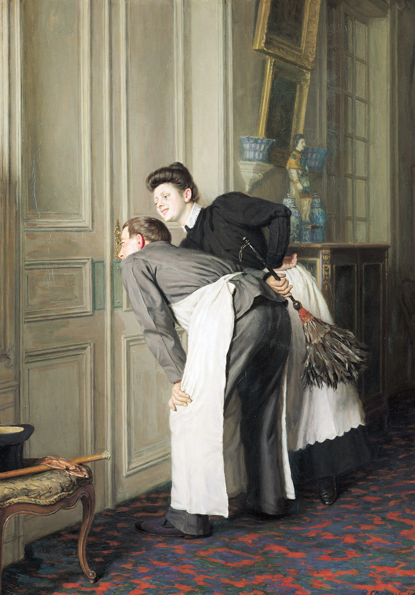 Madame is Receiving (Madame has a Guest)